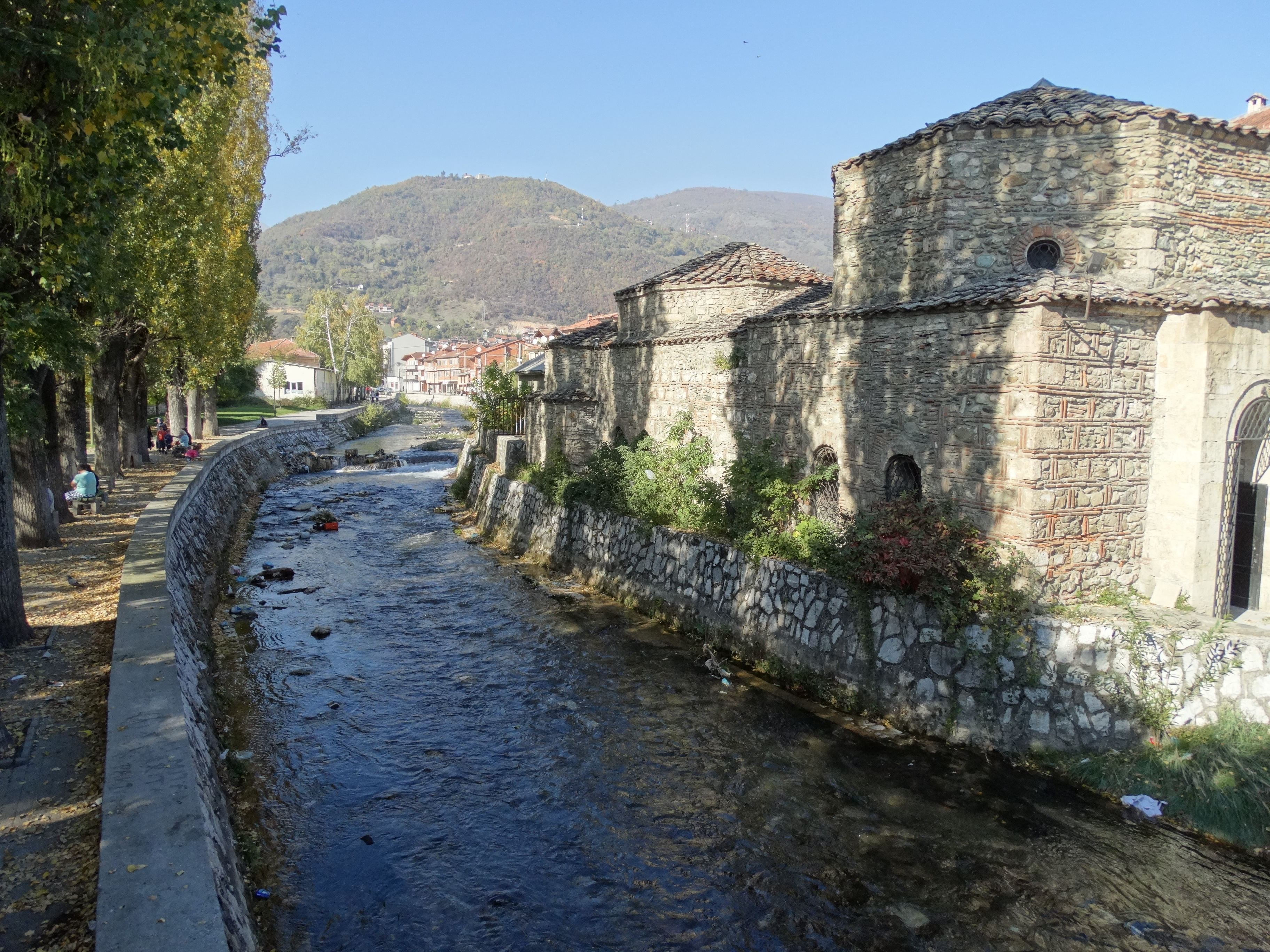 View along Pena River - Outside Pasha's Mosque - Tetova (Tetovo) - Macedonia